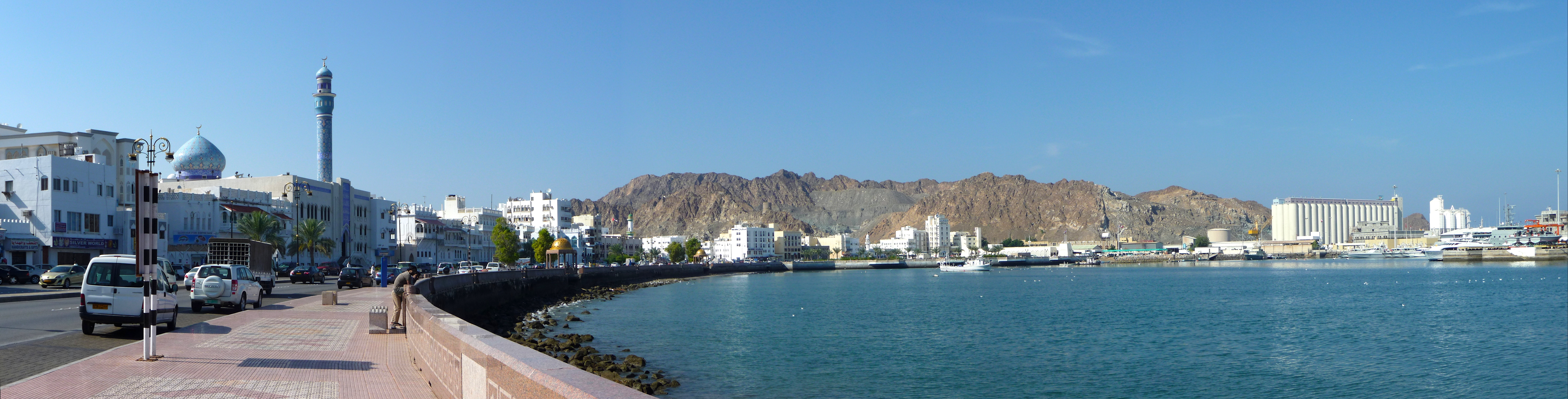 Embankment in Mutrah (Muscat, Oman).